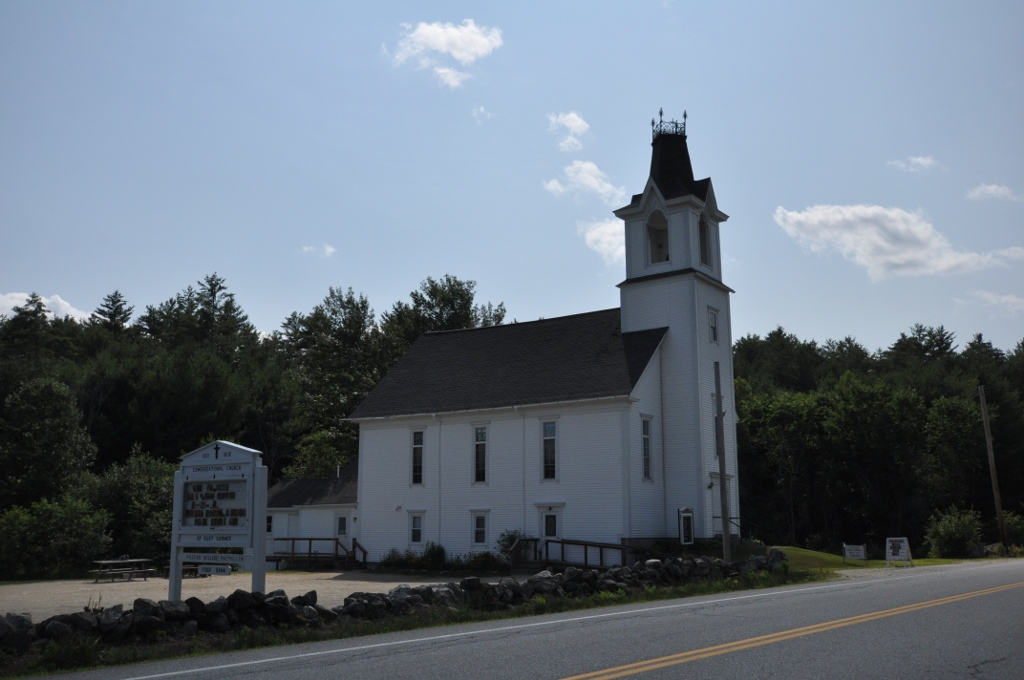 First Universalist Society of East Sumner, Maine.